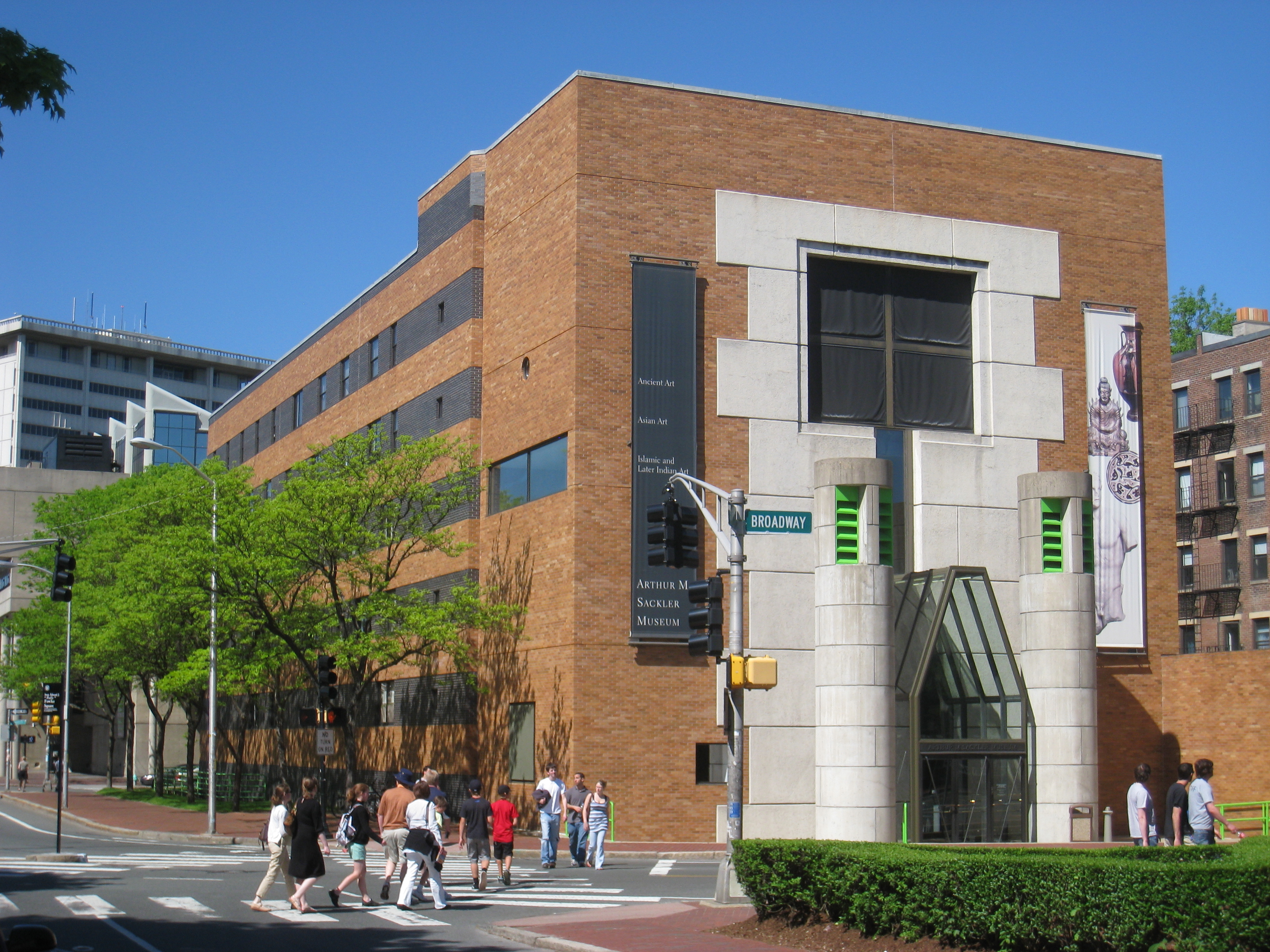 Arthur M. Sackler Museum, Harvard University, Cambridge, Massachusetts, USA. Front oblique view.